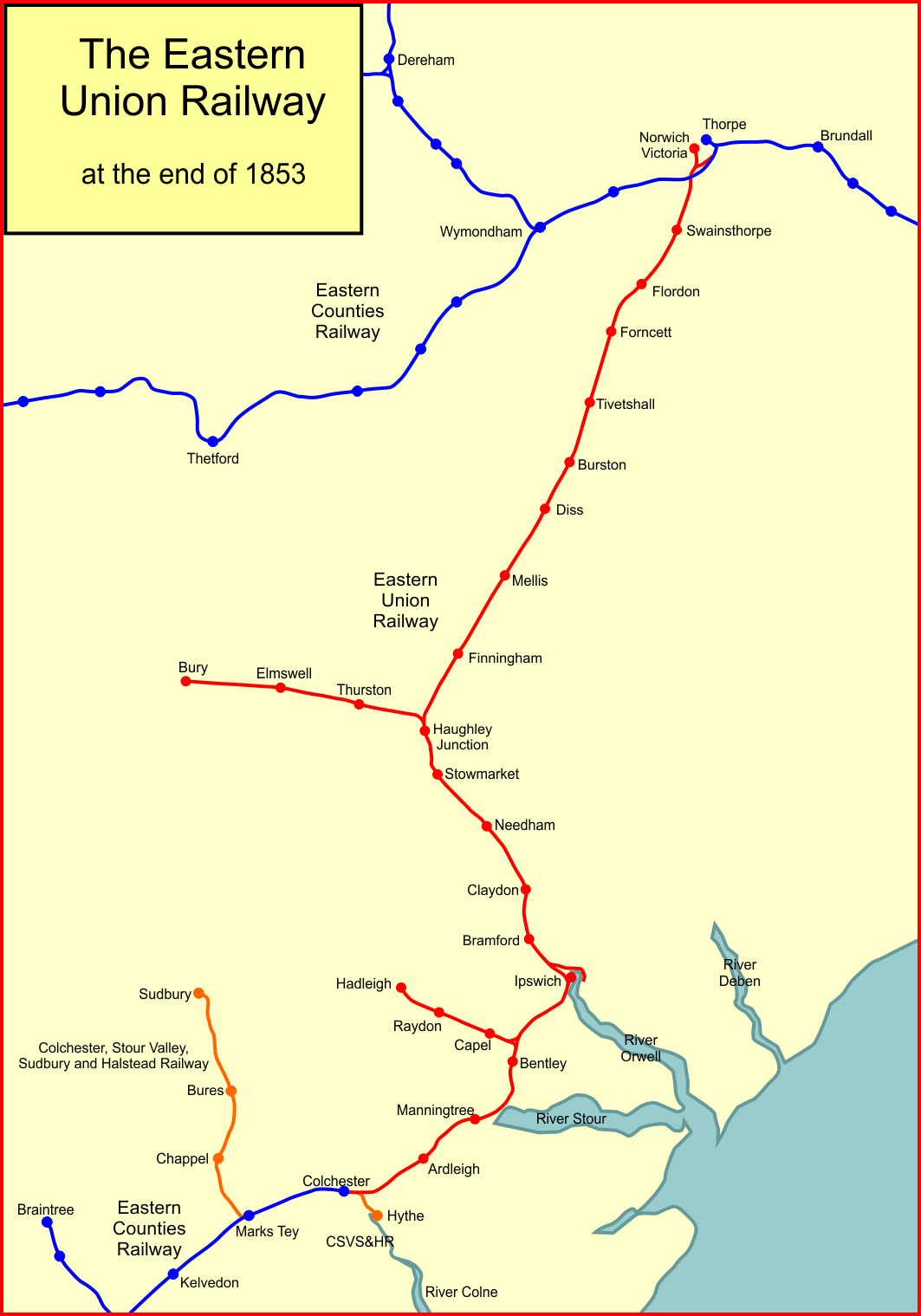 Systemk map of the Eastern Union Railway, England at the end of its independent existence in 1853